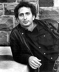 Photo of Colgate University professor Peter Balakian. This photo is the property of Colgate University.